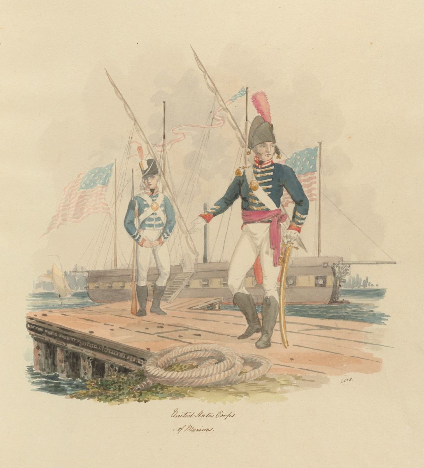 Original drawing: "United States Corps of Marines". Costume of the British & foreign armies, by Charles Hamilton Smith, ca. 1845. Pen, pencil, watercolor; 44 x 36 cm. [cropped from original scan] HEW 15.8.5, Houghton Library, Harvard University